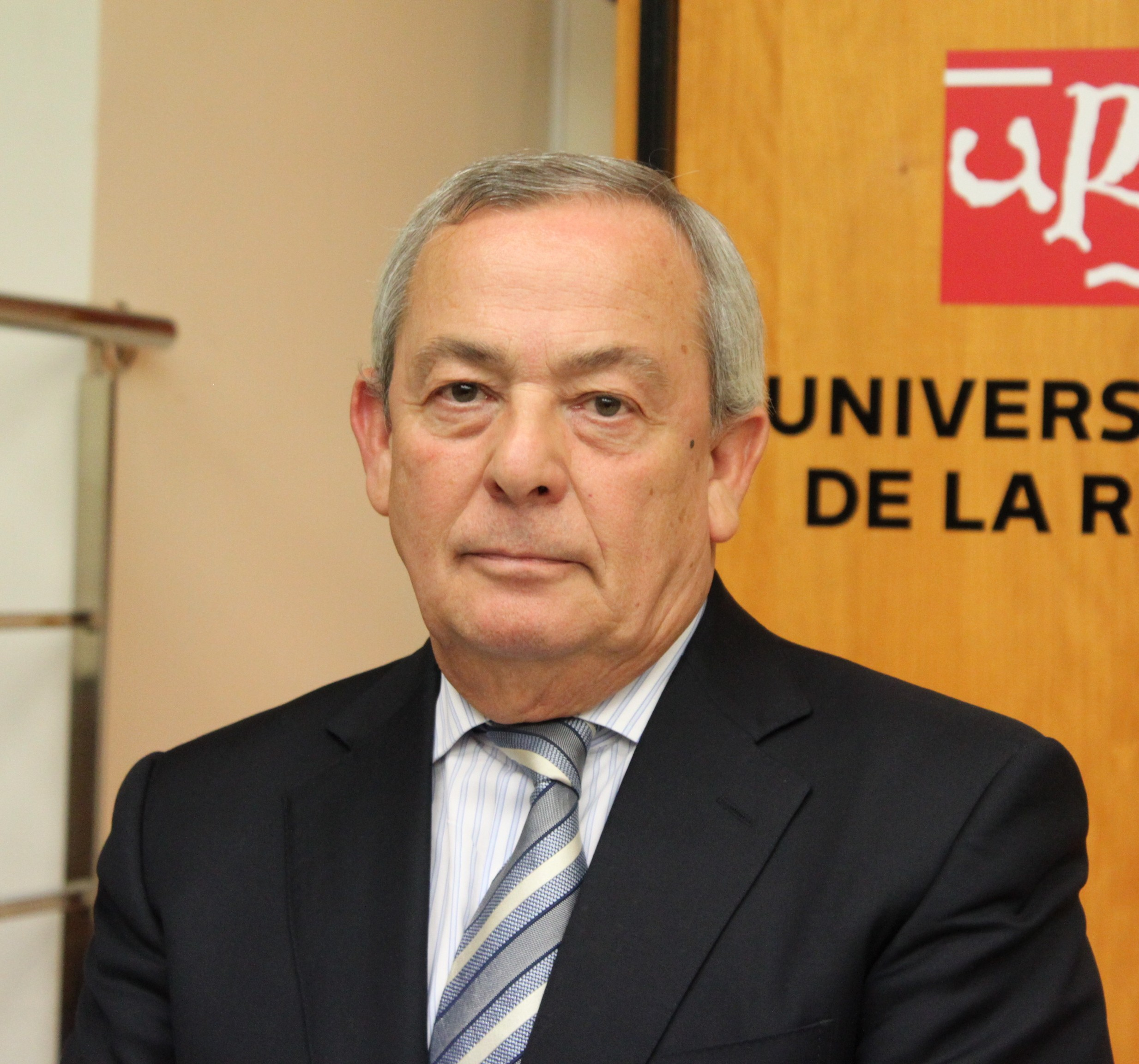 Carlos Solchaga in the University of La Rioja (Spain).